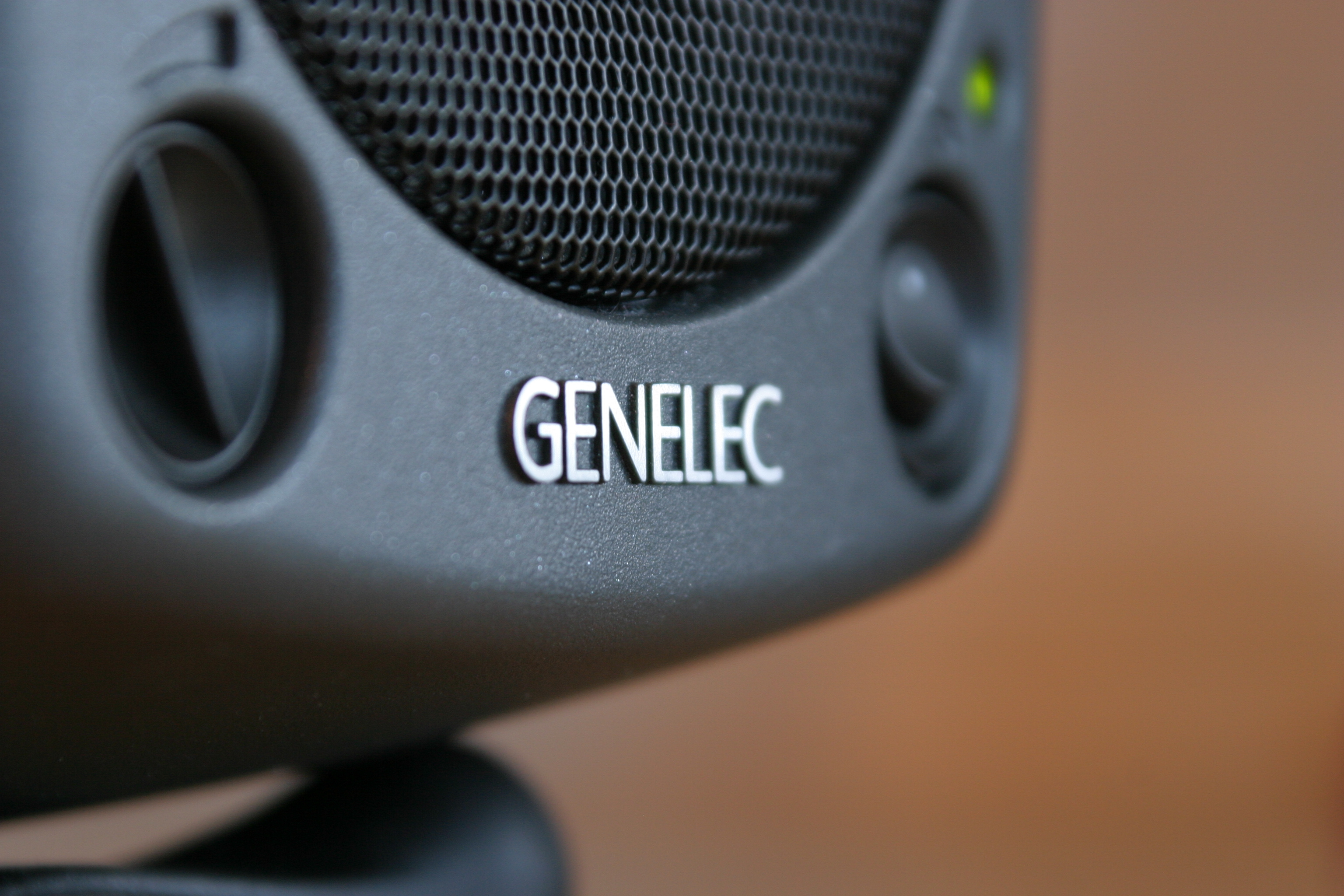 Genelec 8030A activespeaker.jpg